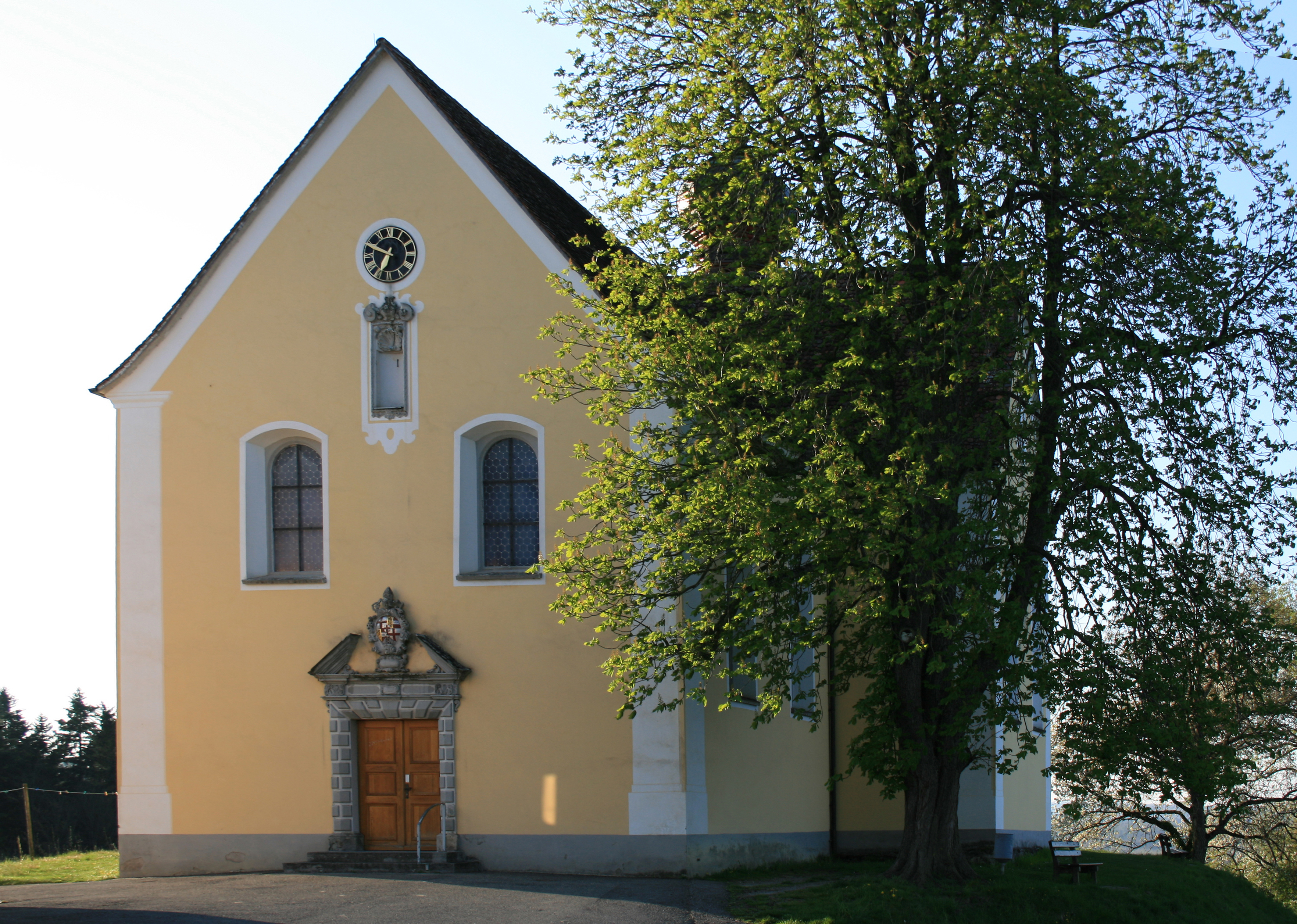 Pilgrimage Church Baitenhausen